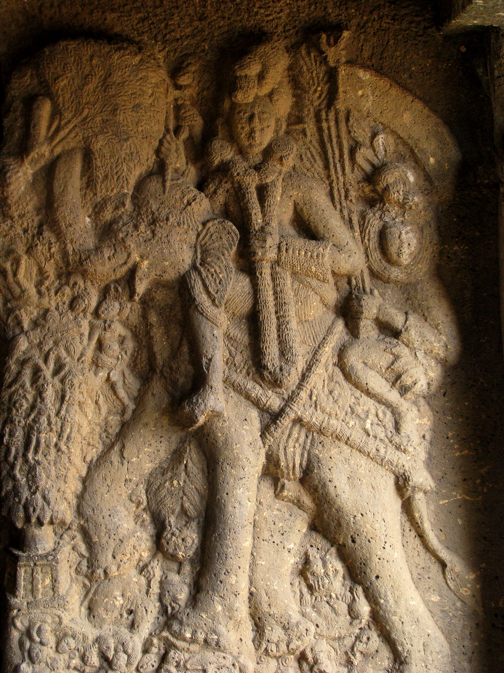 Engravings at Bhaja Caves, Maharashtra, India. See information in [1]